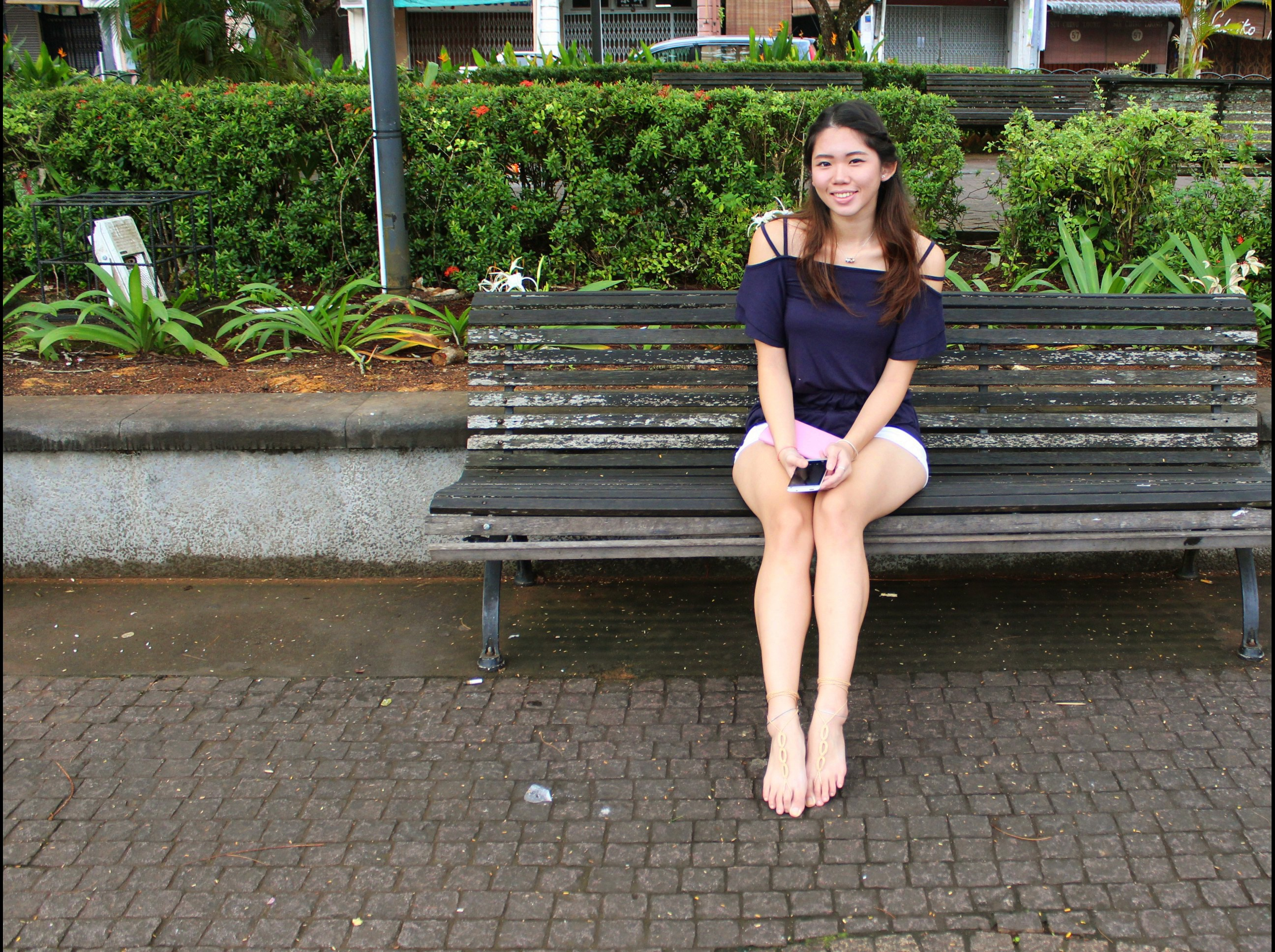 Barefoot girl